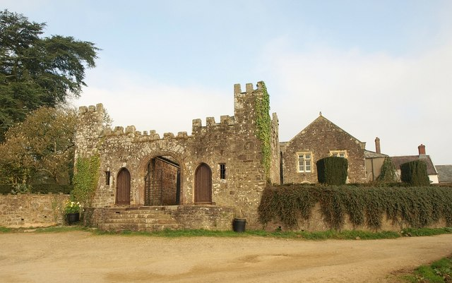 15th century gatehouse to mansion house of Dowrich in the parish of Sandford, near Crediton, Devon.